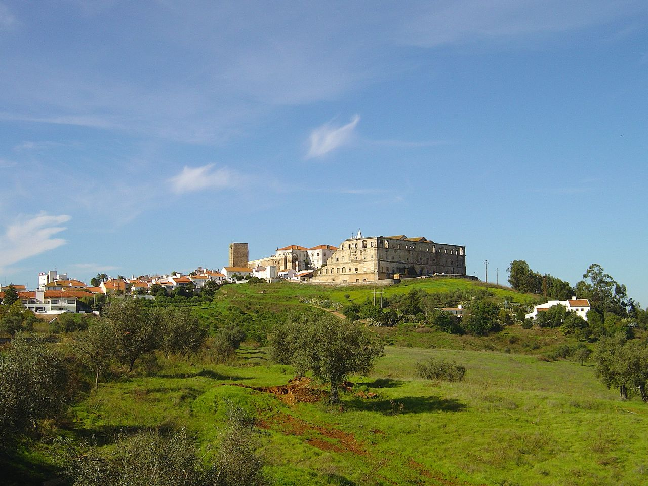 See where this picture was taken. [?]